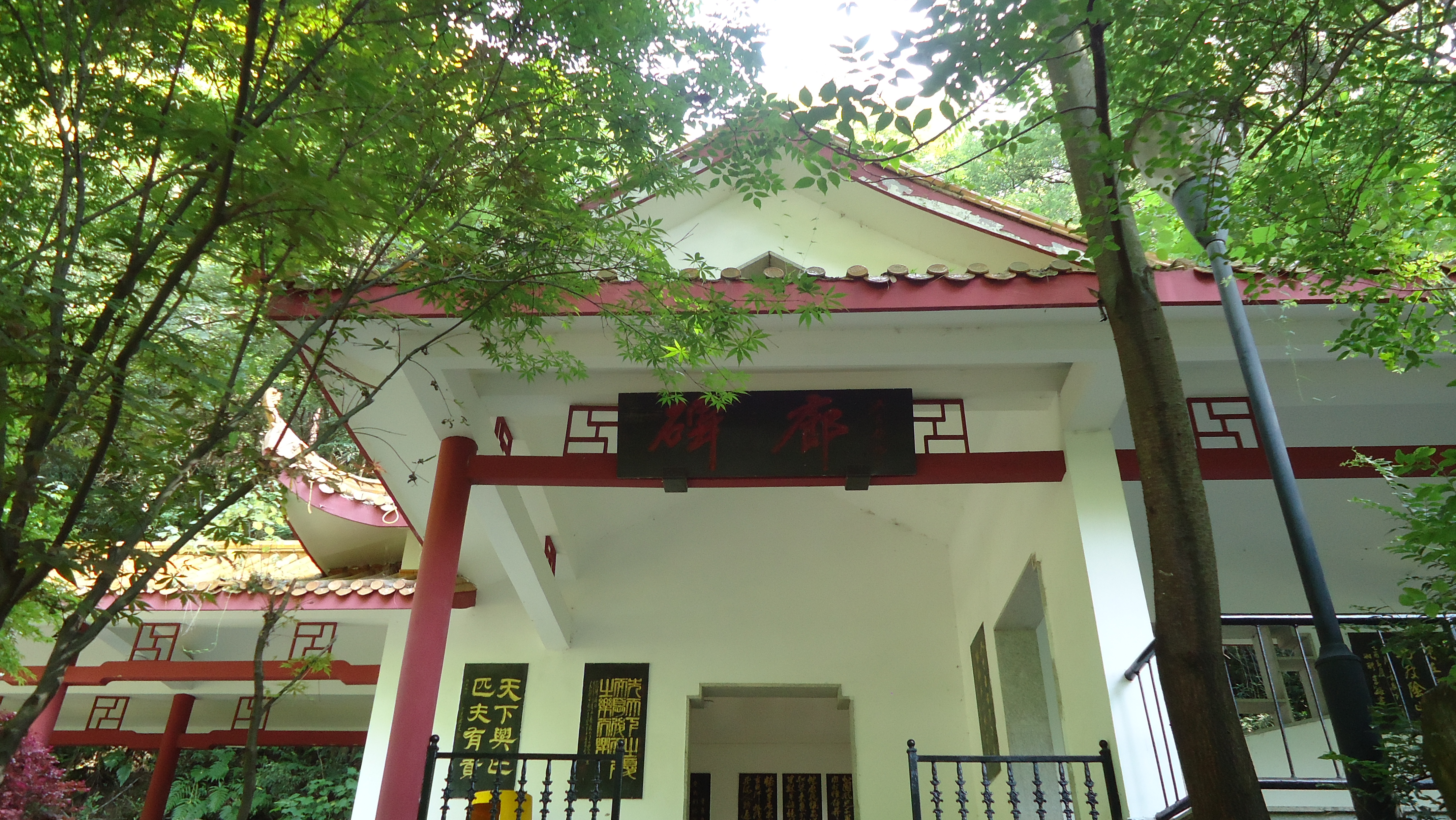 Hunan Normal University,founded in 1938, is a higher education institution located in Changsha, Hunan Province, People's Republic of China. The University is a national 211 Project university, one of the country's 100 key universities in the 21st century that enjoy priority in obtaining national funds.